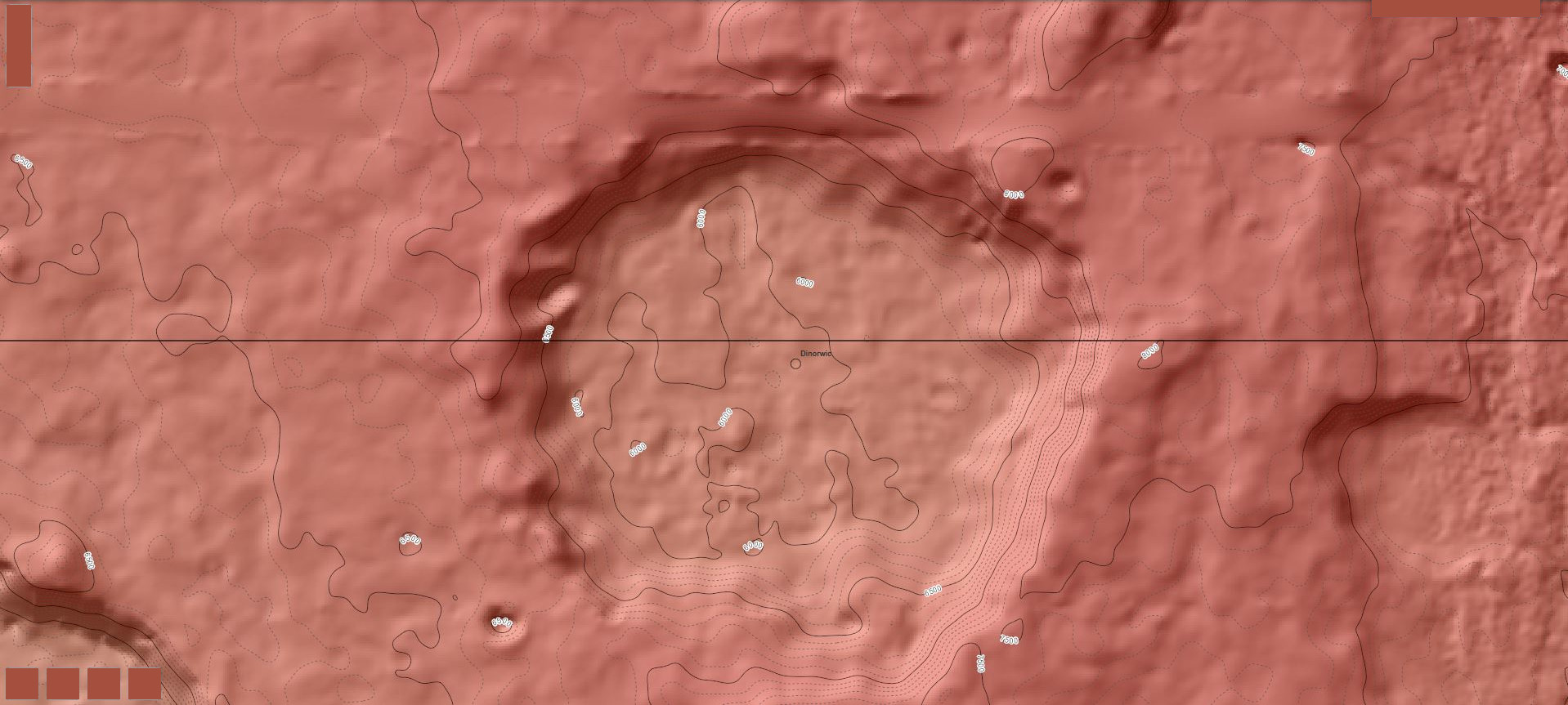 A topographic map created using Mars Orbiter Laser Altimeter (MOLA) data. This map show the relative elevation in 100 meter elevation contour lines (dashed) and 500 meter elevation contour lines (bold) with a total elevation uncertainty of +/- 6 meters.